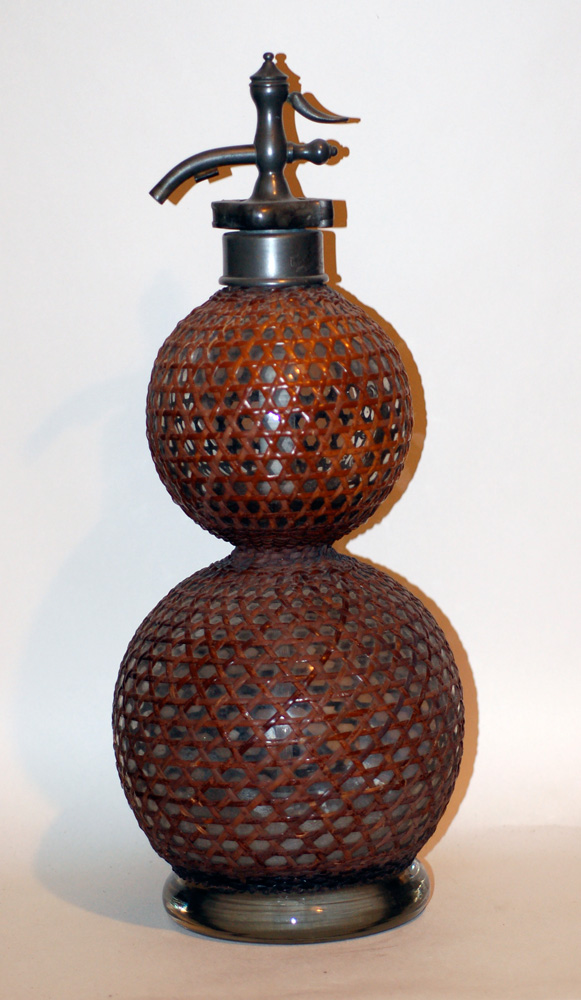 Late Victorian wicker covered Seltzogene marked: British Syphon pat. no.15686.